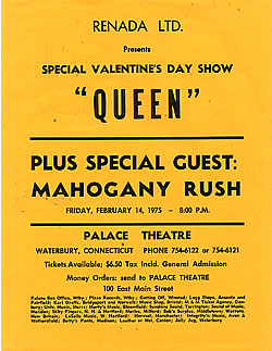 Posters of Queen's concert at the Palace Theatre.